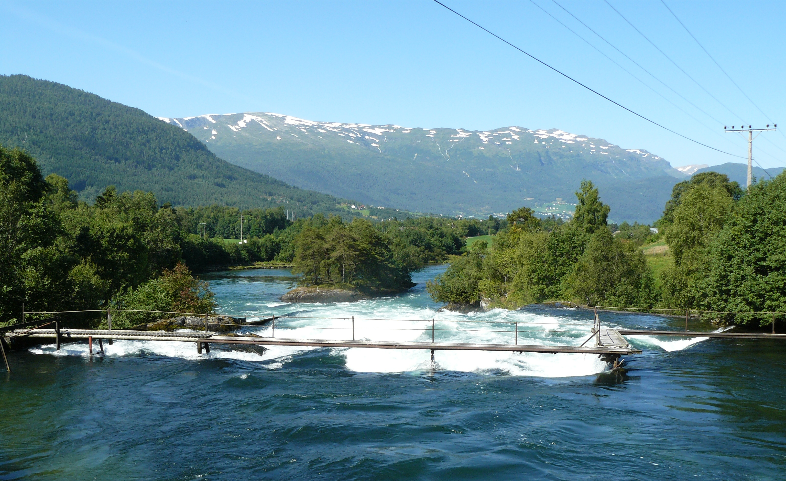 Gloppeelva - Gloppen river in Gloppen, Sogn og Fjordane, Norway